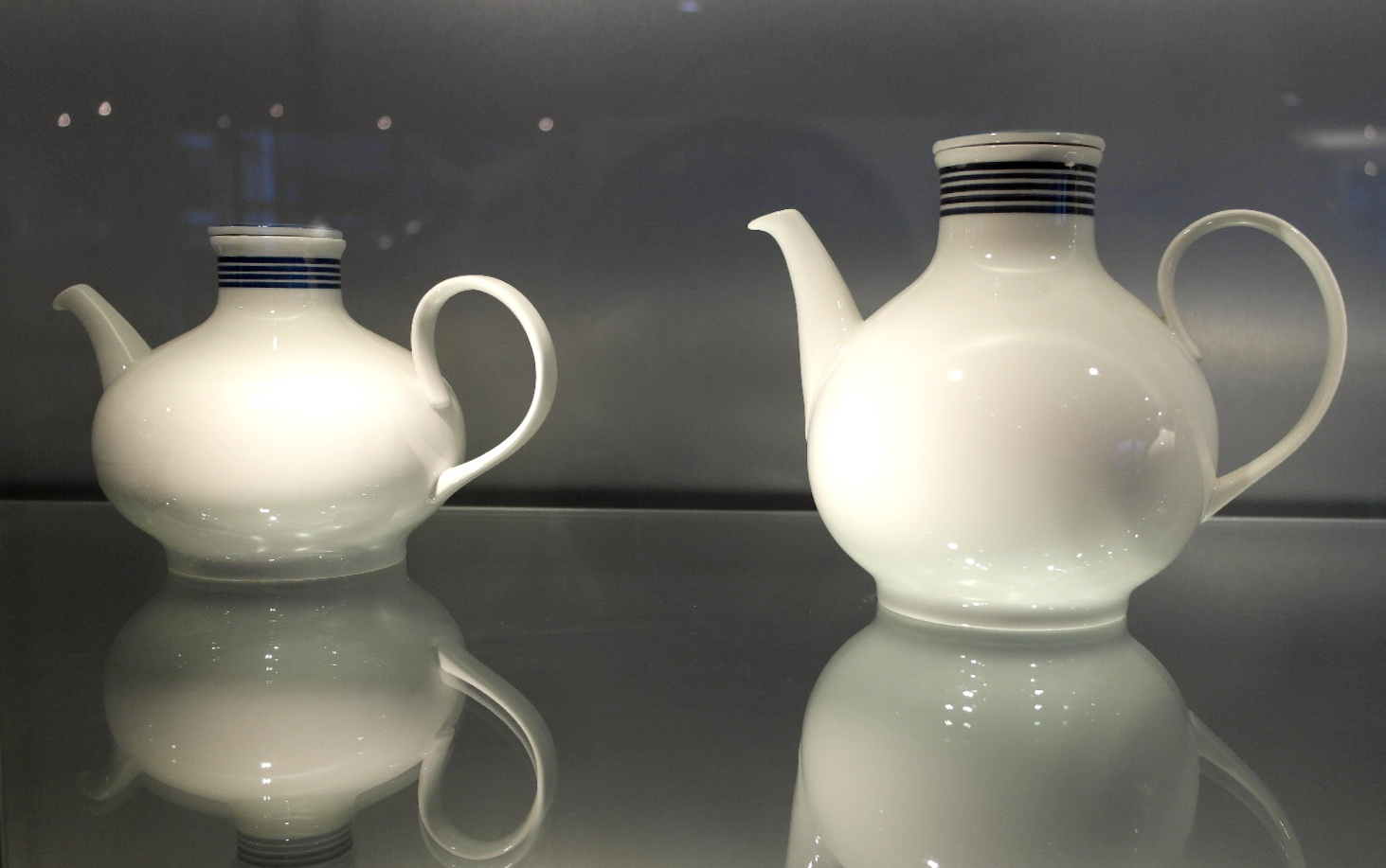 Ceramic tableware Fuga, designed by Piet Stockmans and produced by Mosa potteries in Maastricht from 1969 onward, Collection Henk van Buren, now in Centre Ceramique, Maastricht, the Netherlands.